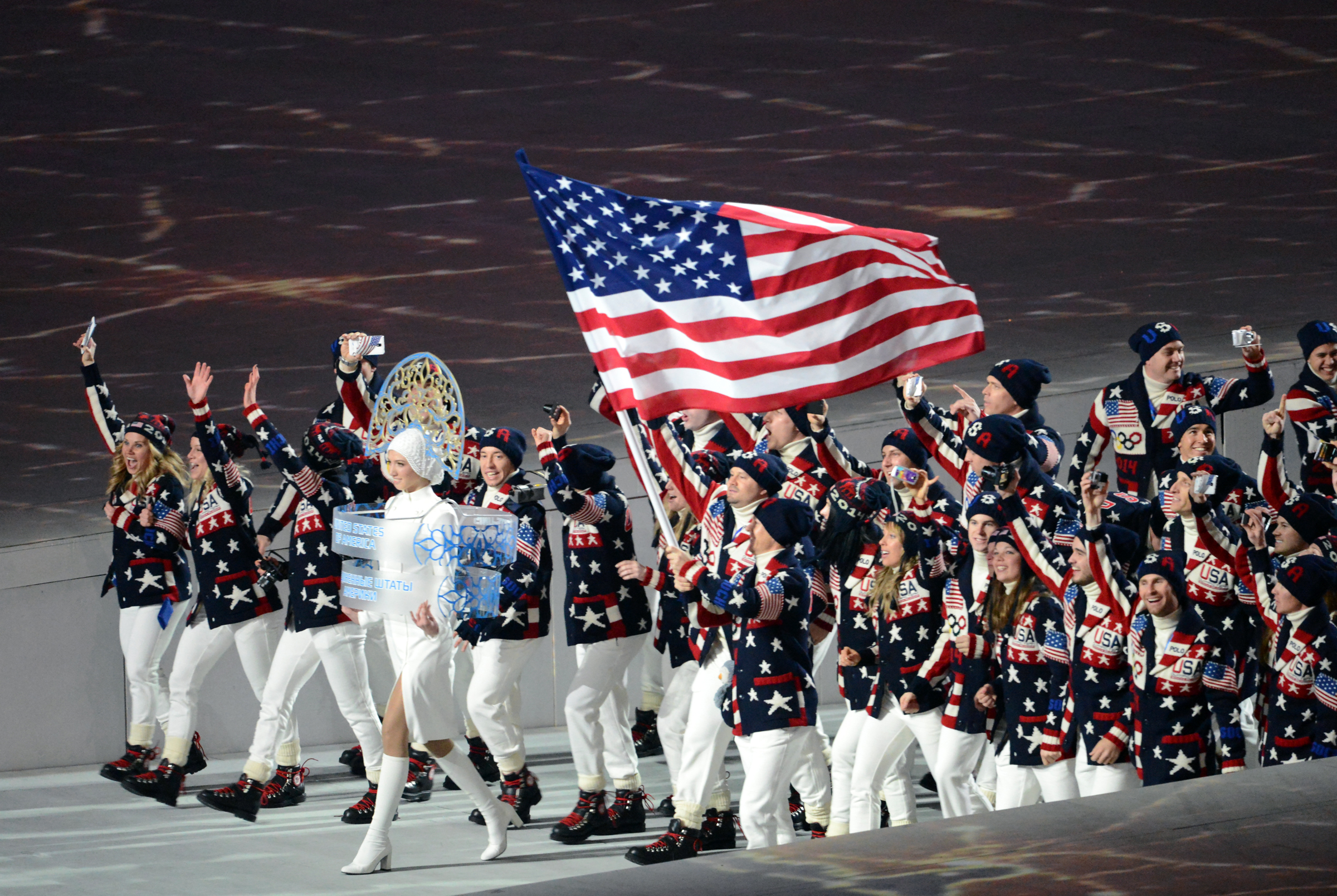 Todd Lodwick carries the flag of the United States of America, which flies directly over the head of former U.S. Army World Class Athlete Program bobsledder Steven Holcomb, reigning Olympic champion four-man bobsled driver, as Team USA marches into Fisht Olympic Stadium during the Opening Ceremony of the 2014 Olympic Winter Games on Feb. 7 in Sochi, Russia. Army WCAP bobsledders Sgt. Justin Olsen, Capt. Chris Fogt and Sgt. Dallas Robinson also are among the lead group of Americans